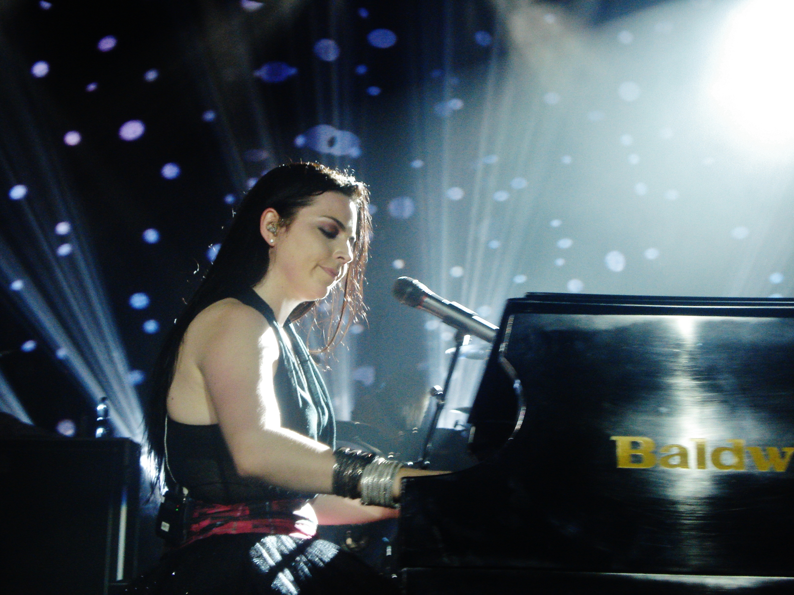 Amy Lee of Evanescence at The Sound Academy in Toronto, Canada.